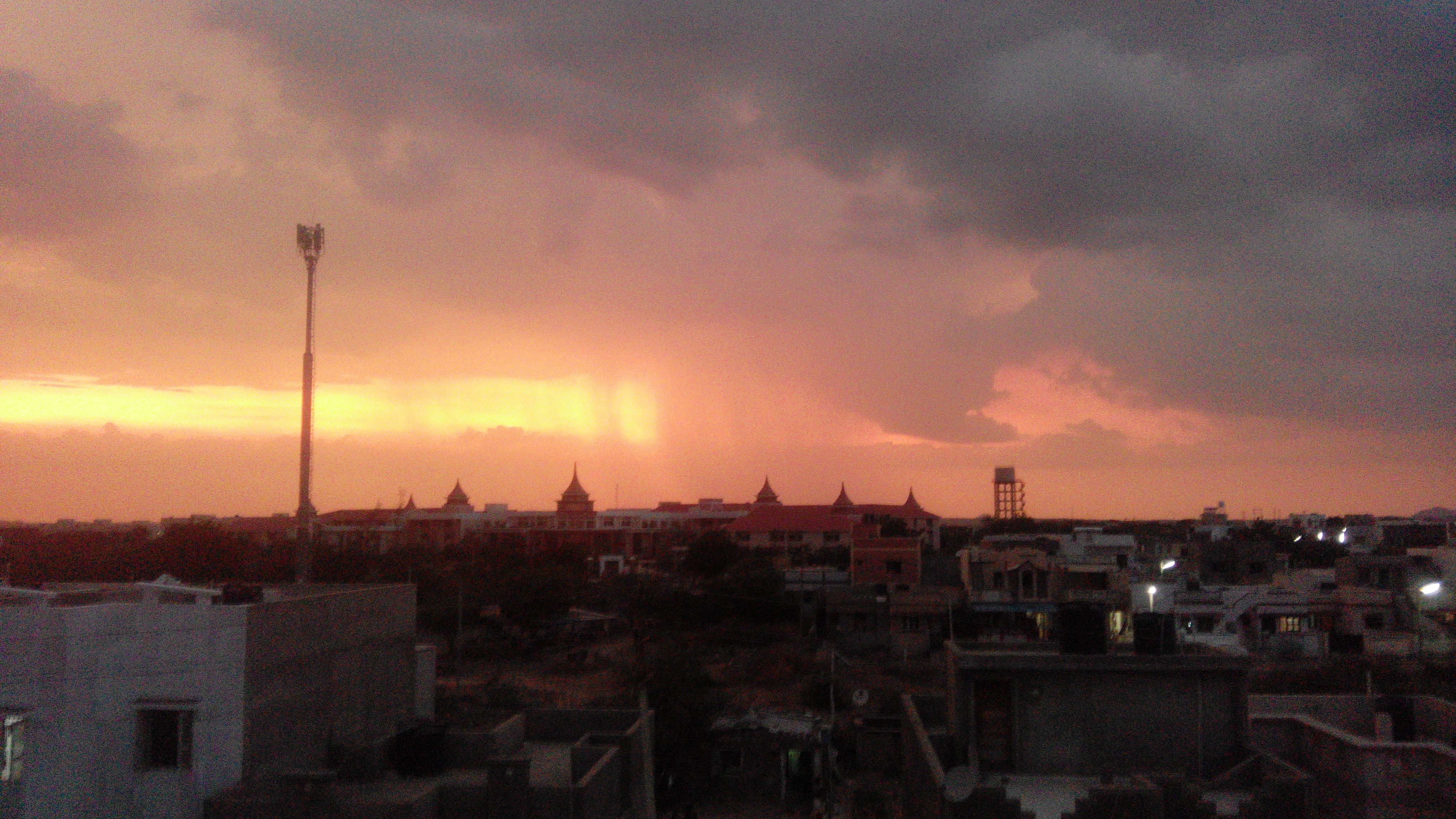 it was clicked by friend Roy!